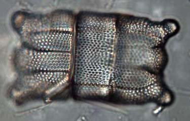 author: Ania Wachnicka source: ersonal collection